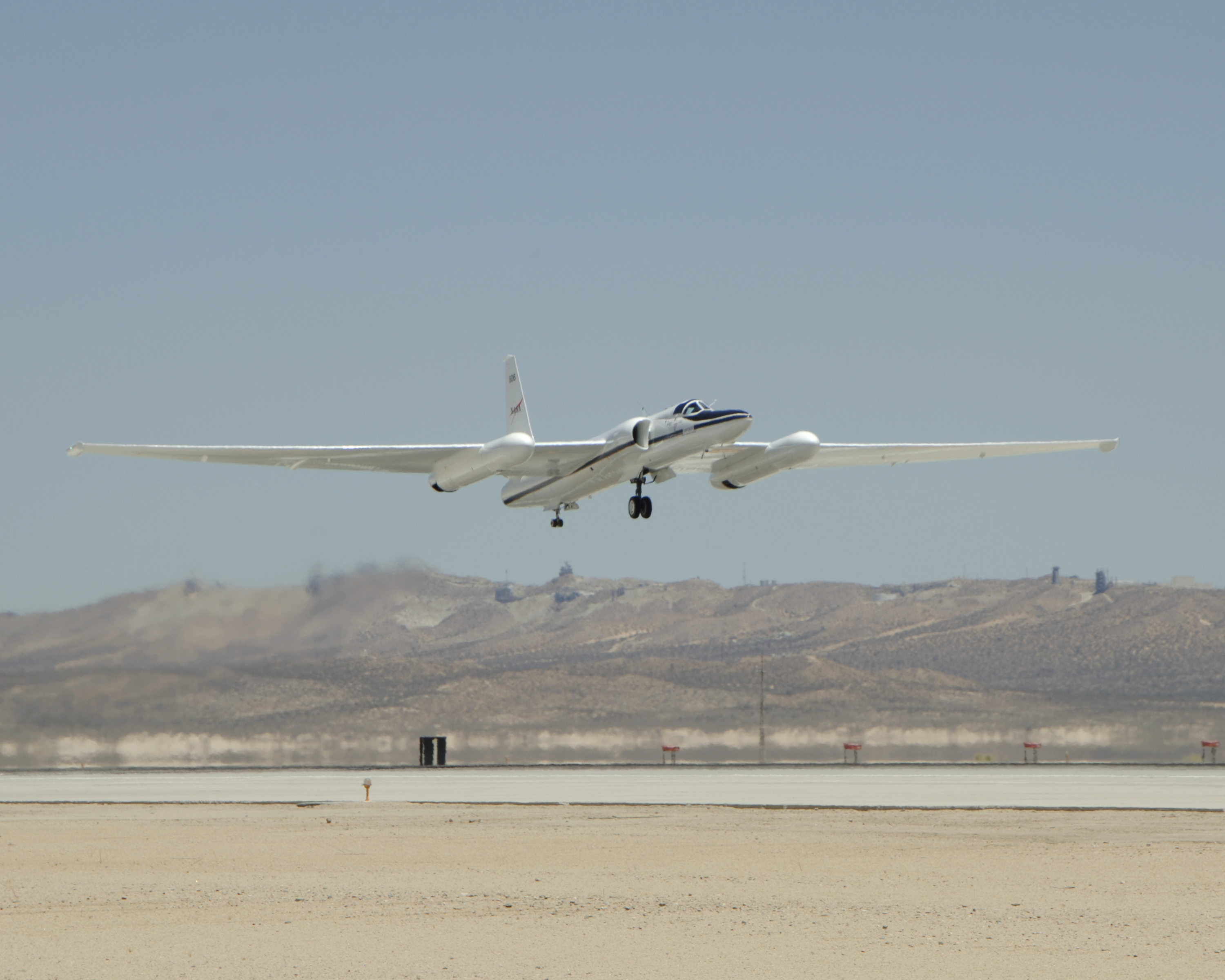 NASA'S ER-2 #806 lifts off from Edwards Air Force Base on a CALIPS/CloudSat validation instrument checkout flight. ER-2 tail number 806, is one of two Airborne Science ER-2s used as science platforms by Dryden. The aircraft are platforms for a variety of high-altitude science missions flown over various parts of the world. They are also used for earth science and atmospheric sensor research and development, satellite calibration and data validation. The ER-2s are capable of carrying a maximum payload of 2,600 pounds of experiments in a nose bay, the main equipment bay behind the cockpit, two wing-mounted superpods and small underbody and trailing edges. Most ER-2 missions last about six hours with ranges of about 2,200 nautical miles. The aircraft typically fly at altitudes above 65,000 feet. On November 19, 1998, the ER-2 set a world record for medium weight aircraft reaching an altitude of 68,700 feet. The aircraft is 63 feet long, with a wingspan of 104 feet. The top of the vertical tail is 16 feet above ground when the aircraft is on the bicycle-type landing gear. Cruising speeds are 410 knots, or 467 miles per hour, at altitude. A single General Electric F118 turbofan engine rated at 17,000 pounds thrust powers the ER-2.